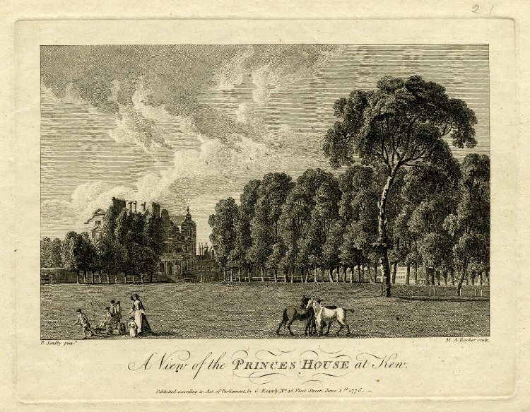 "A View of the Prince's House at Kew," etching published at London by Kearsley. 161 mm x 214 mm. View of the Dutch House at Kew (Kew Palace). Courtesy of the British Museum, London.